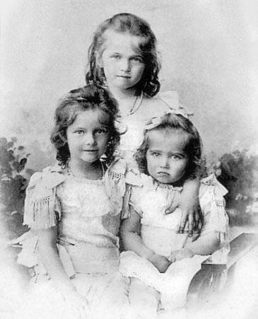 This photograph of Grand Duchesses Olga, Tatiana, and Maria Nikolaevna of Russia in 1901 is from It was published on postcards prior to World War I. Because of its age, I believe it is likely in the public domain. If I am mistaken, please delete the image.